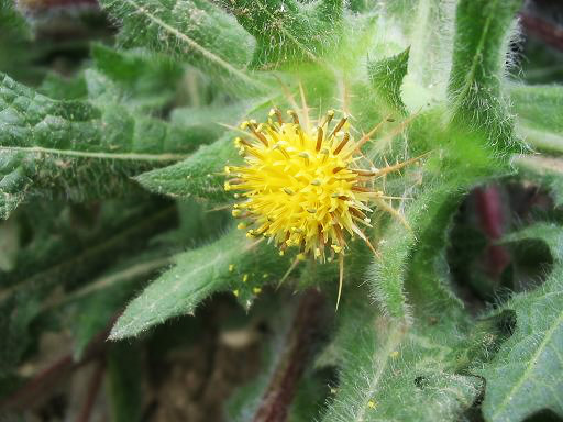 It is a medicinal plant.